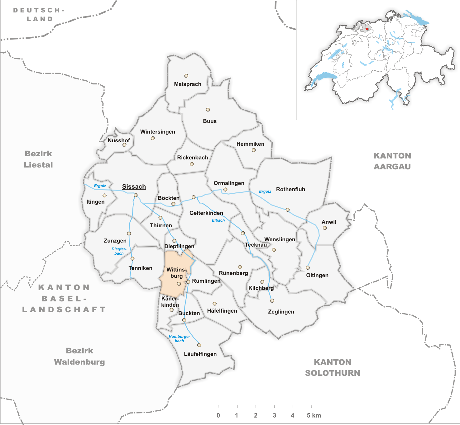 Municipality Wittinsburg